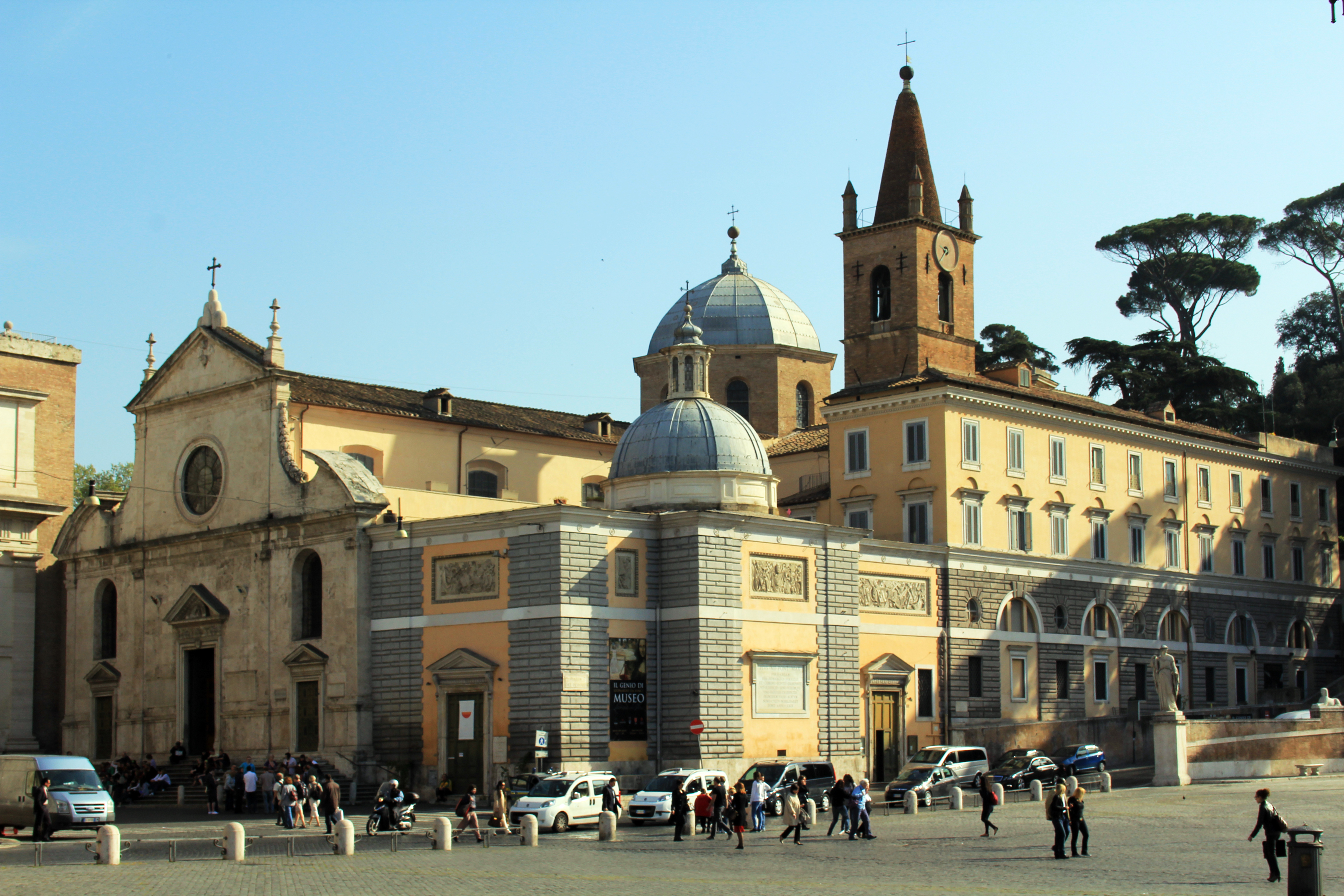 Church Santa Maria del Popolo in Roma